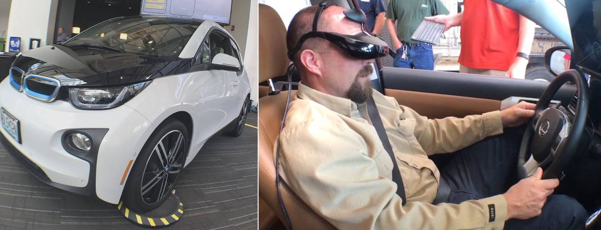 Portable in-vehicle driving simulator, developed by Drive Square Inc. for defensive driving training and assessment, and distracted driving prevention, utilizing an actual vehicle and a virtual reality head-mounted display (HMD). 2017.